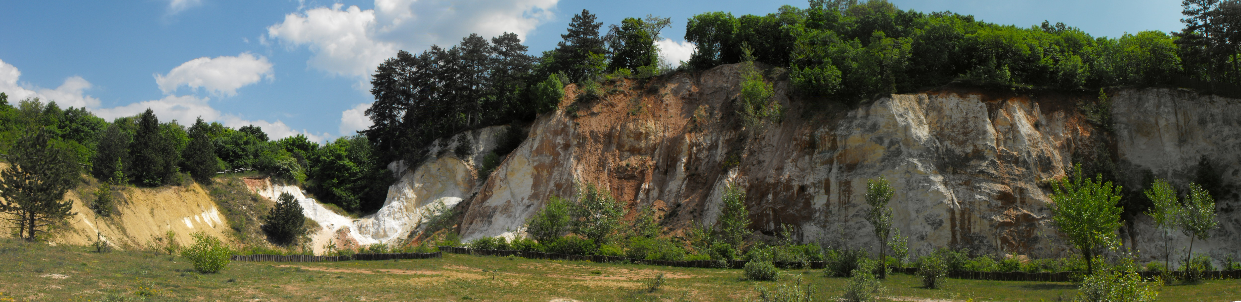 View outside Budakeszi game park.